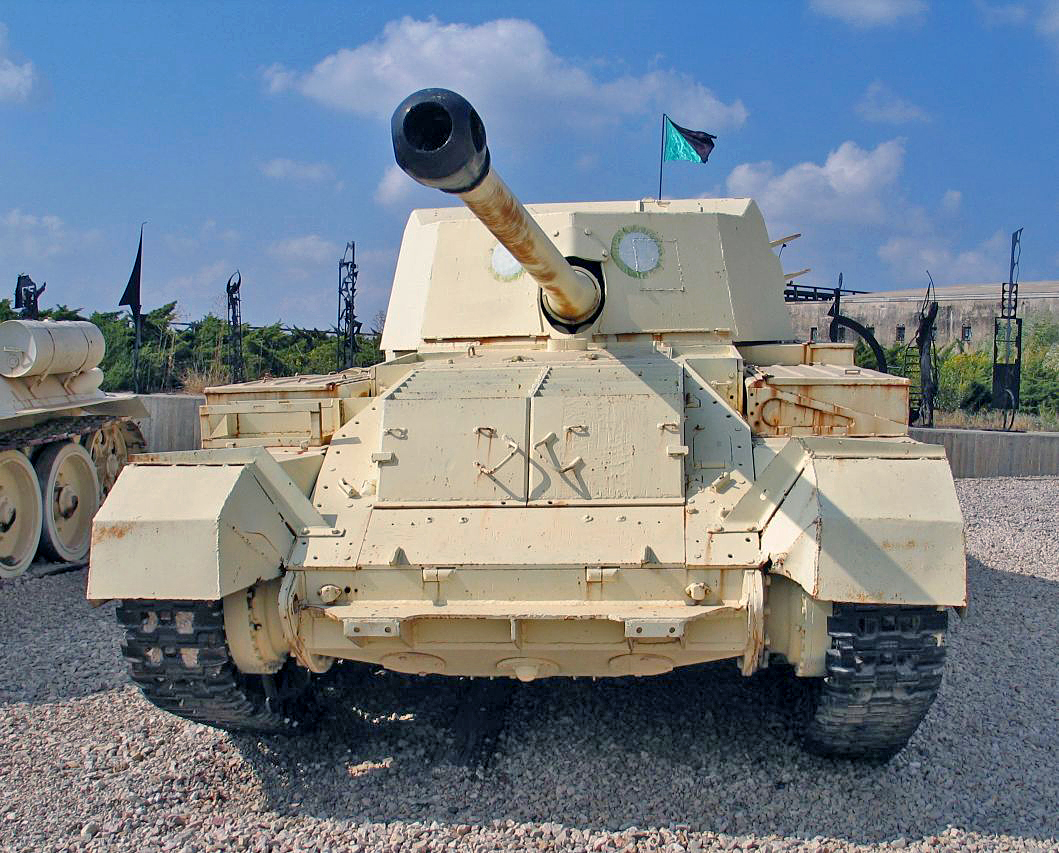 Description: Archer tank destroyer in Yad la-Shiryon Museum, Israel. 2005. Source: Photo by me, User:Bukvoed